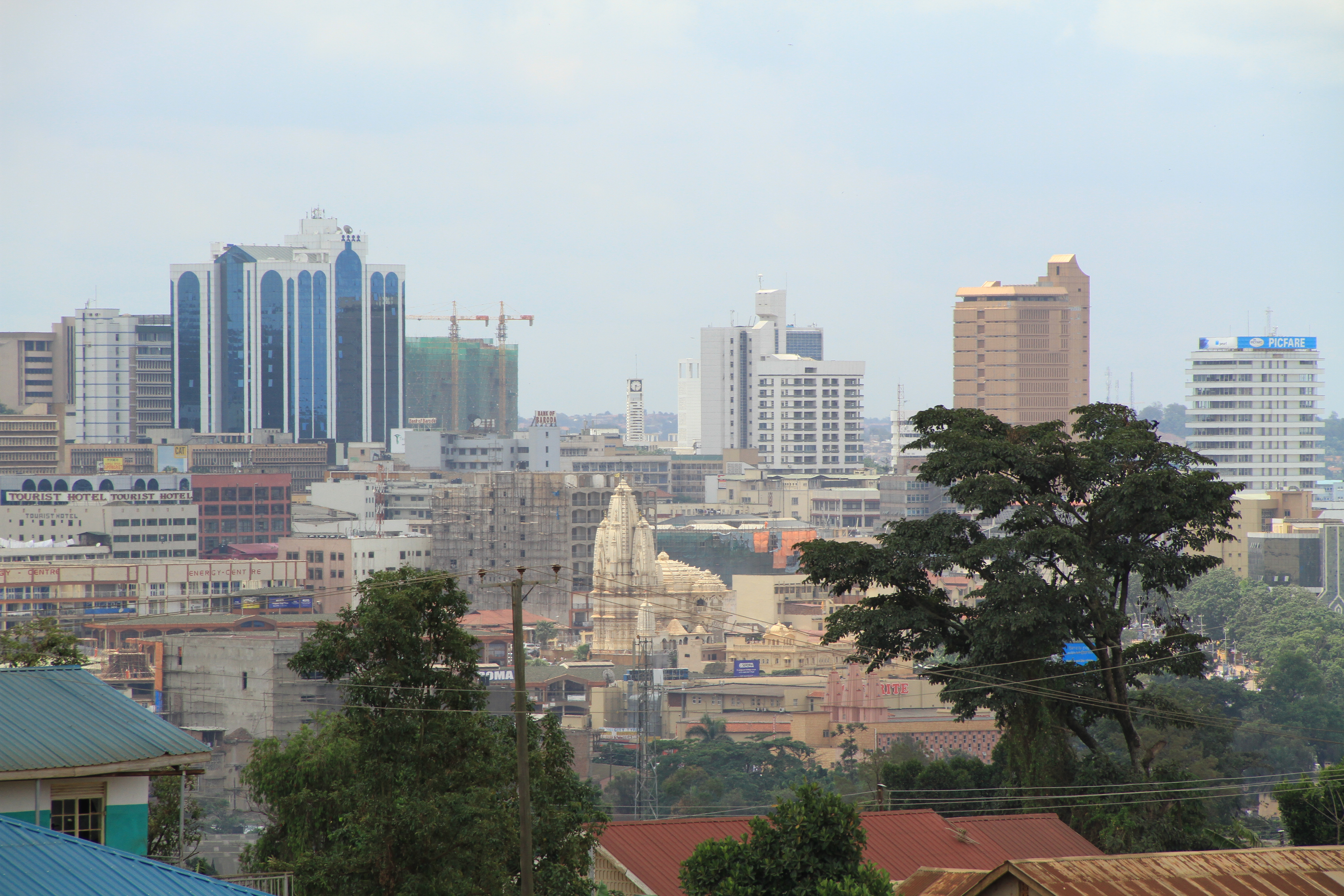 Downtown Uganda